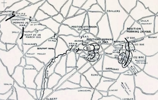 Map showing the positions of the 51st (Highland) Division in late March 1918